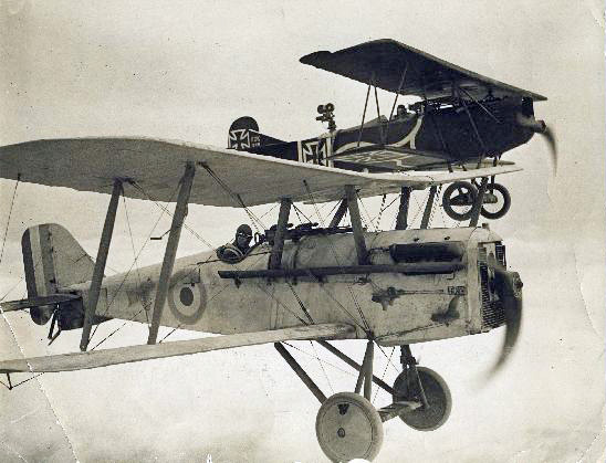 Catalog #: Movie-28 Notes: Photo of Clarke and Roy Wilson flying airplanes in the movie Hell's Angels. Repository: San Diego Air and Space Museum Archive